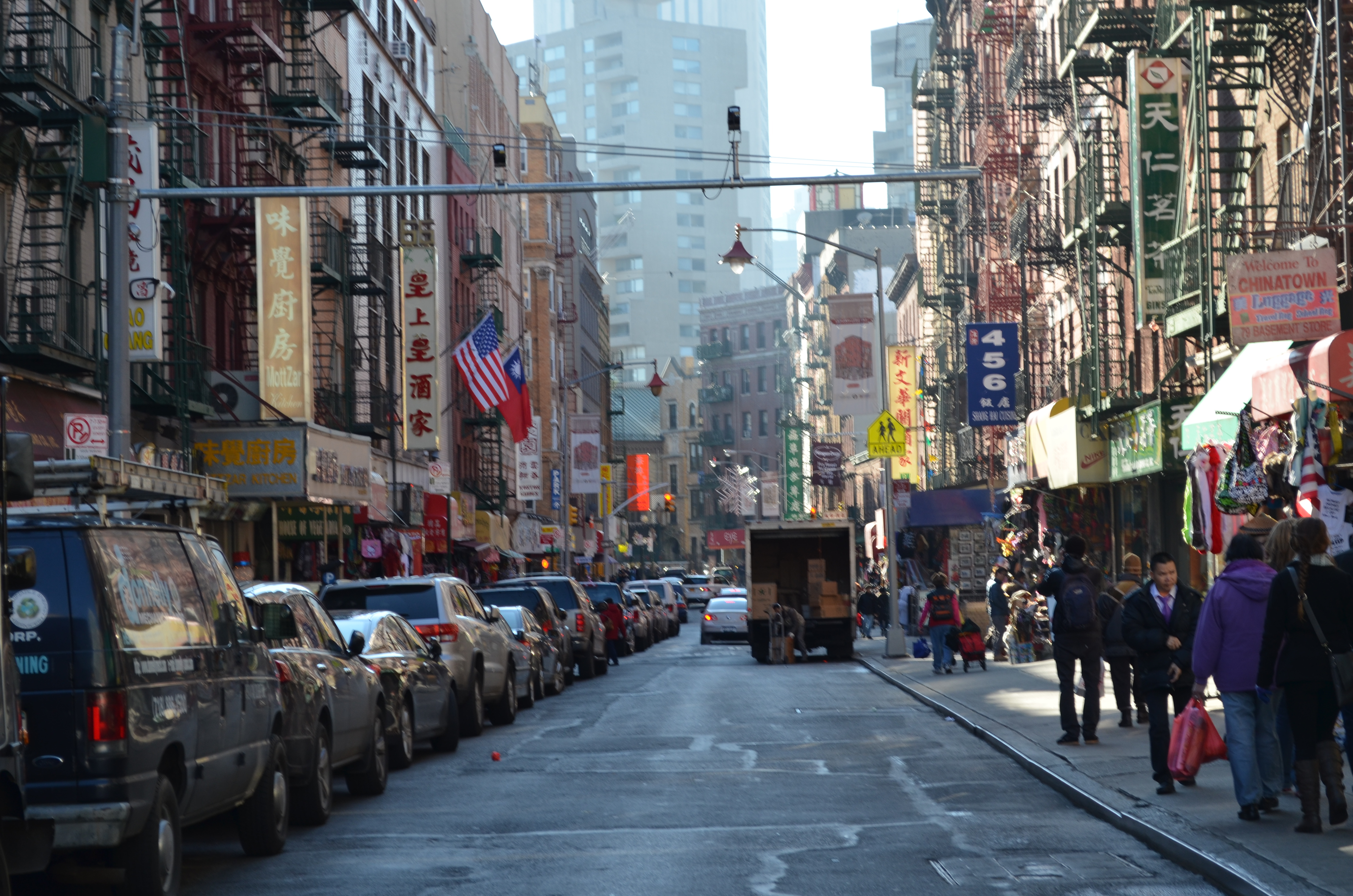 part of Mott St., New York City